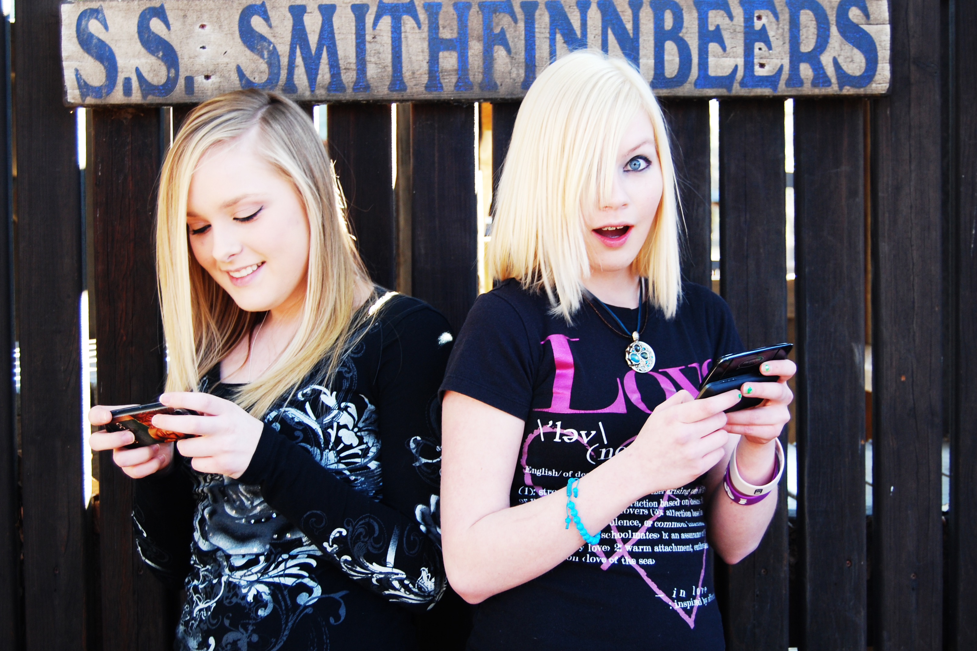 Texting, texting, texting...